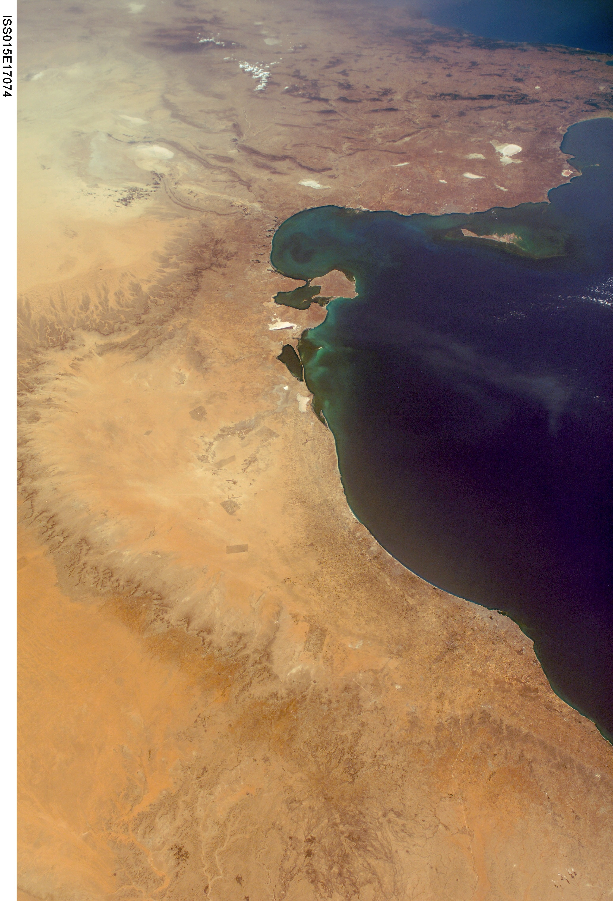 Image courtesy of Image Science and Analysis Laboratory, NASA-Johnson Space Center. "The Gateway to Astronaut Photography of Earth." Crew Earth Observations NASA meatball (03/30/2009 12:46:13). The Mediterranean coast of Tunisia and Libya. Main feature: the Gulf of Gabès with Kerkennah Islands and Djerba Island.